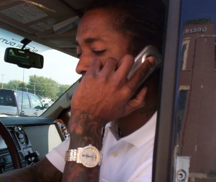 Al Harris signing autographs while leaving the players parking lot at Lambeau Field